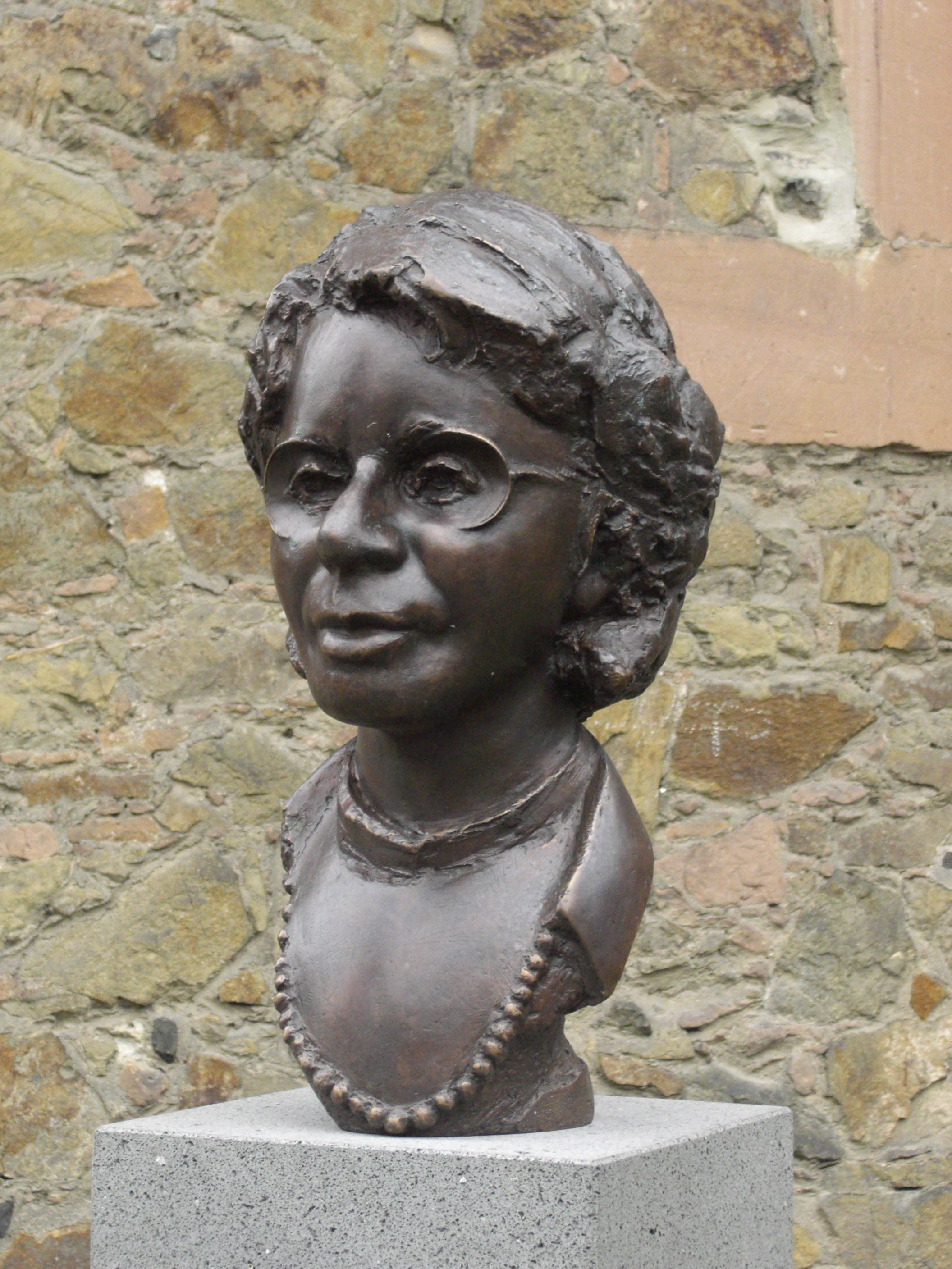 Bust of Helge Pross by Thomas Burhenne at Neues Schloss Giessen, Hesse, Germany